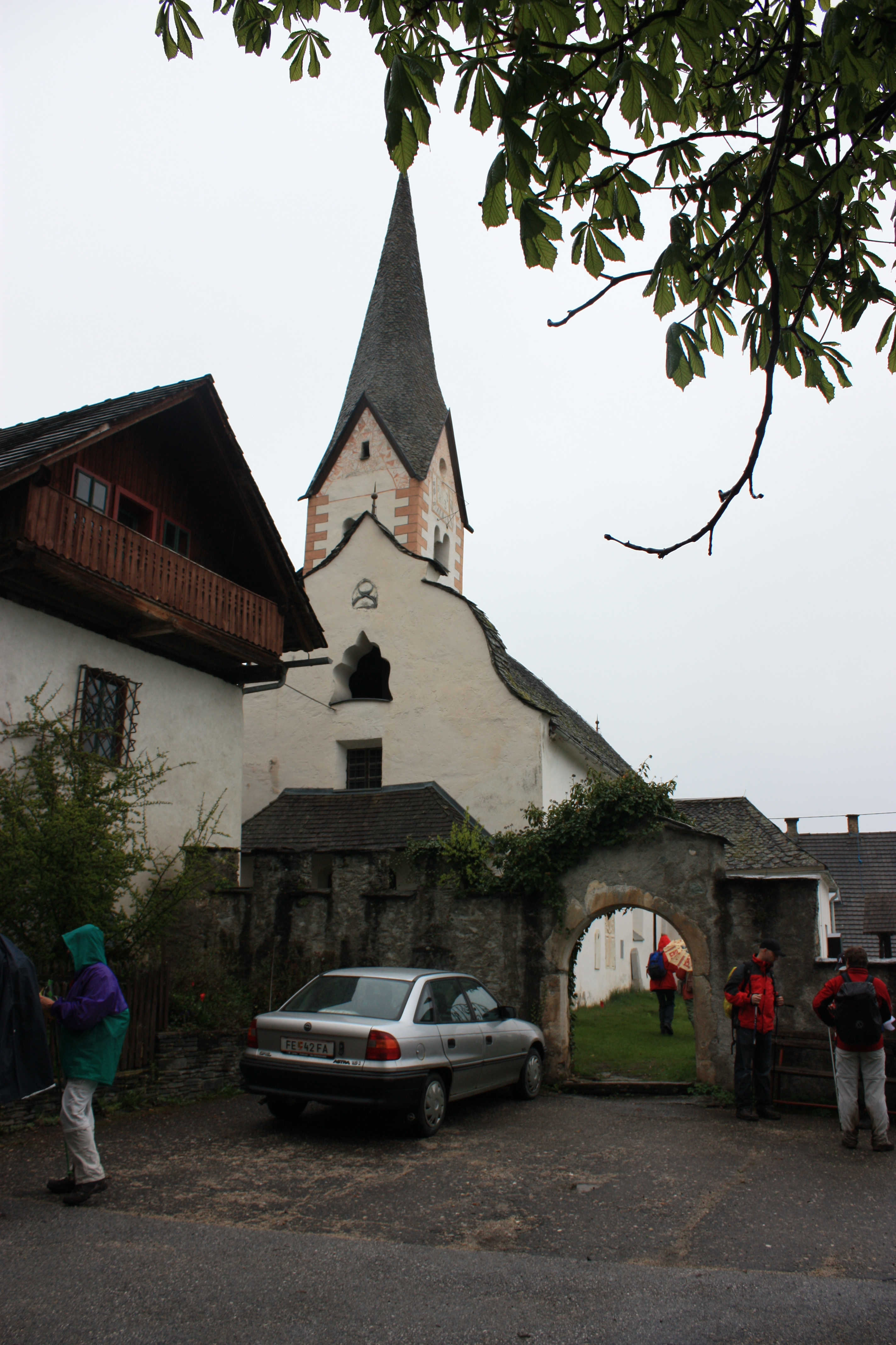 Parish church Saint Jakobus in Liemberg in the community of Liebenfels